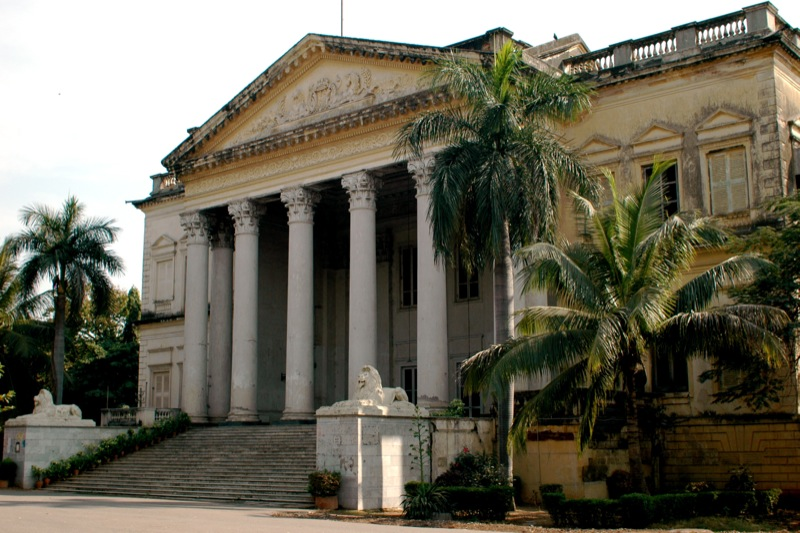 The British Residency at Koti, Hyderabad.